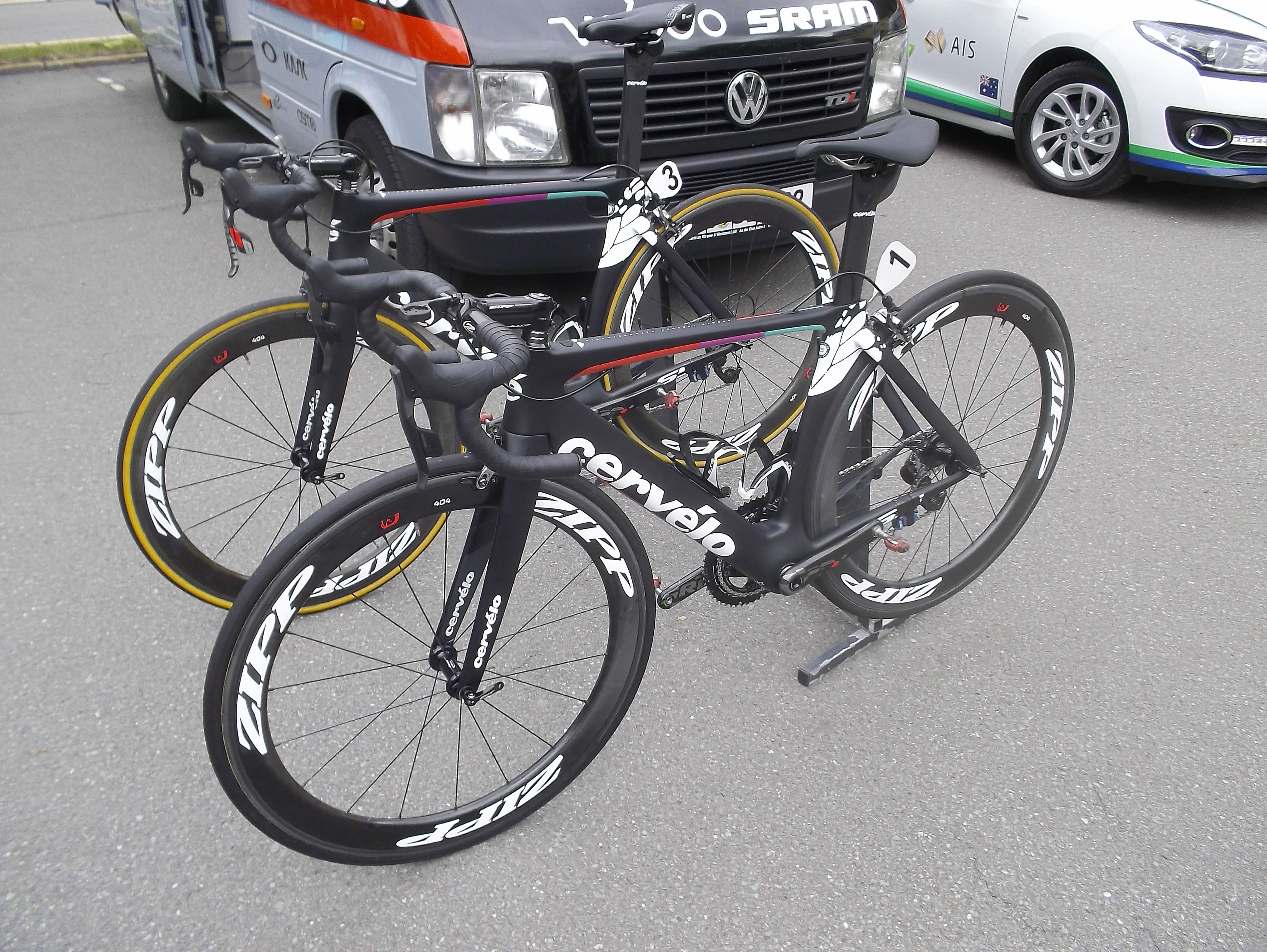 Bikes of the team Velocio-SRAM in 2015